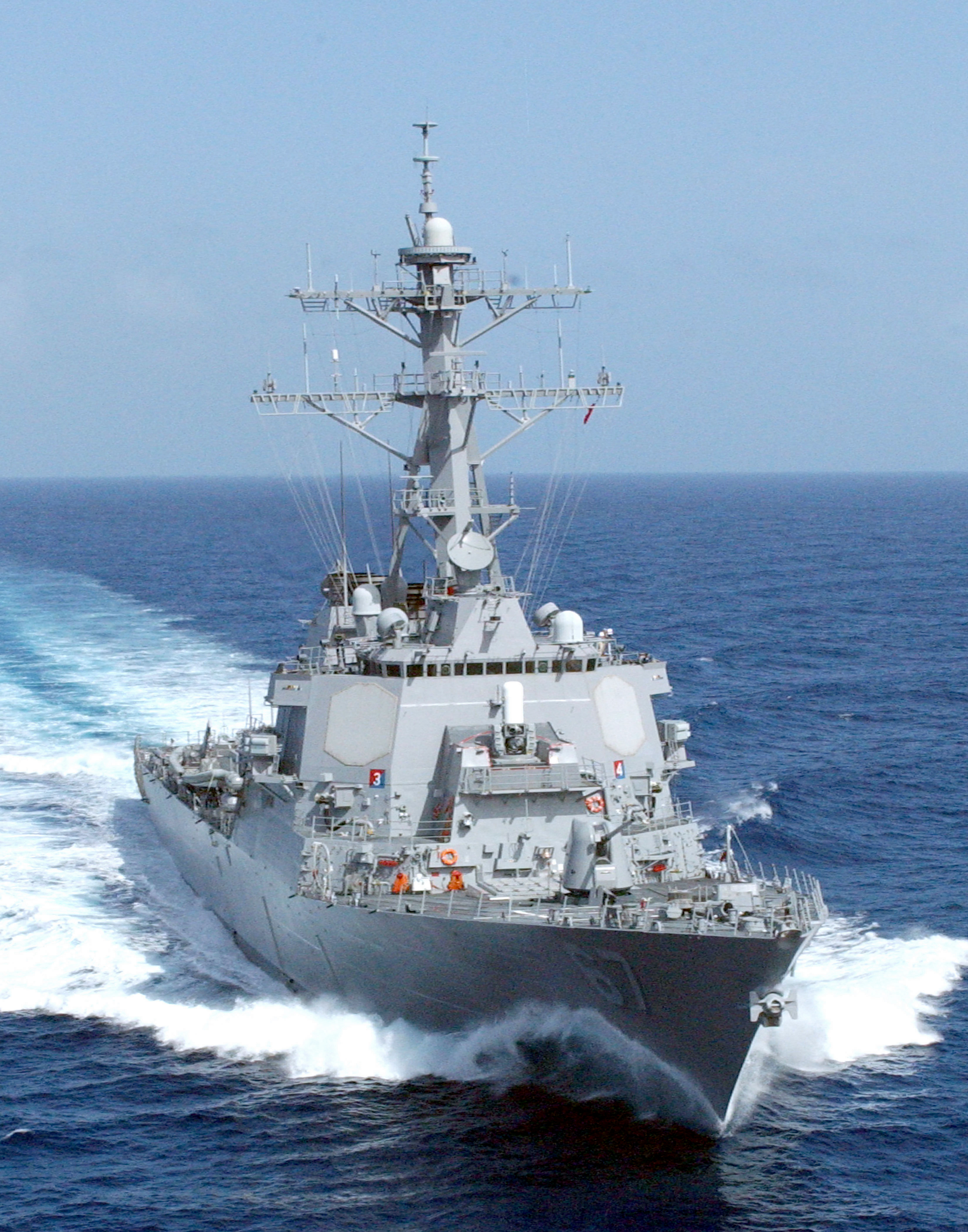 At sea with the guided missile destroyer USS Cole (DDG 67) Aug. 9, 2002 -- USS Cole steams off the coast of the Commonwealth of Puerto Rico conducting Combat System Ship Qualification Trials with Naval Sea Systems Command (NAVSEA). NAVSEA is verifying Cole's combat systems and providing realistic combat training scenarios. Cole recently completed 14 months of shipboard repairs in Pascagoula, Miss., following an Oct. 12, 2000 terrorist attack that killed 17 Sailors in the port city of Aden, Yemen. U.S. Navy photo by Photographer’s Mate 2nd Class James Elliott. (RELEASED)